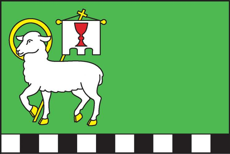 vlajka obce Morašice